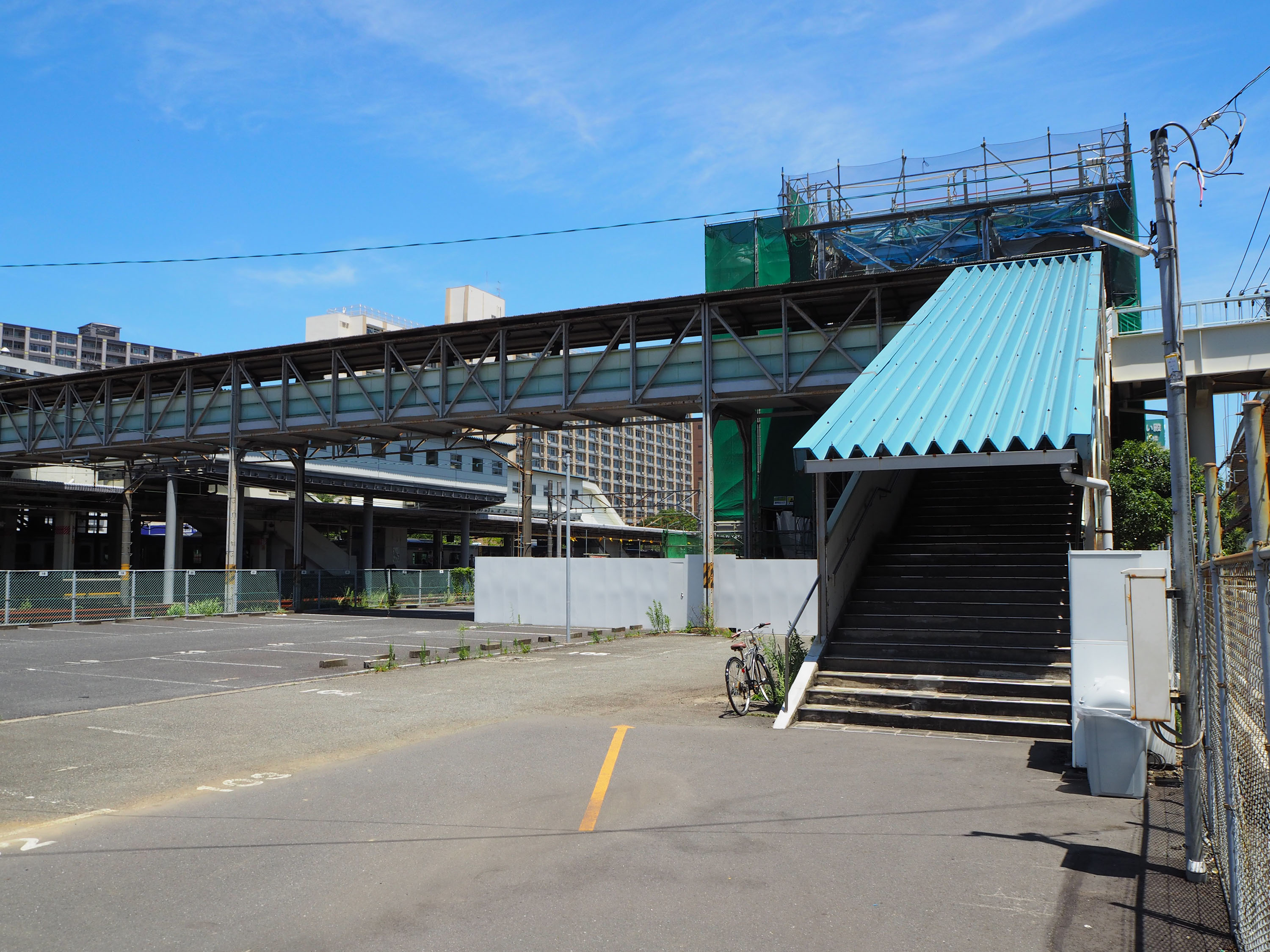 East Entrance of Isogo Station